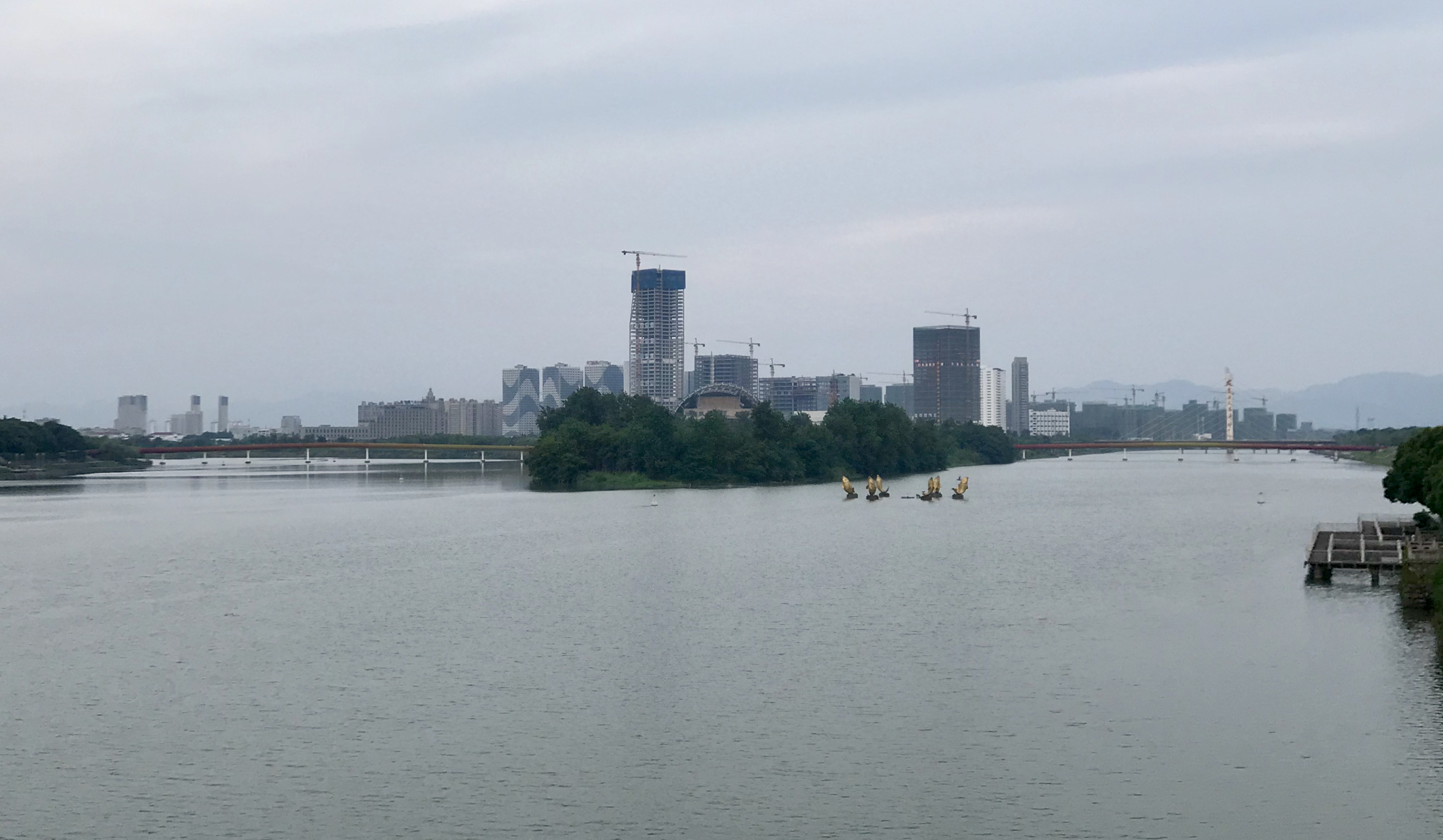 201806 Yanweizhou and Jindong New Town